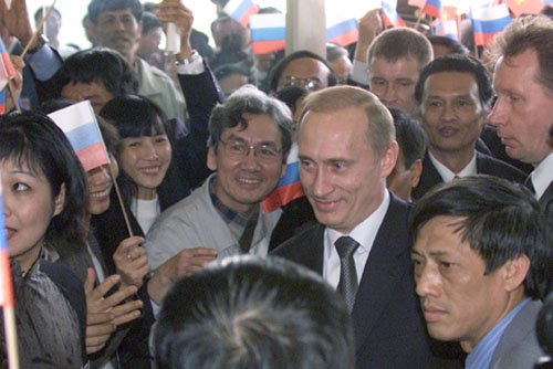 HANOI. President Putin attending a traditional get-together of Vietnamese graduates of Soviet and Russian universities and colleges.